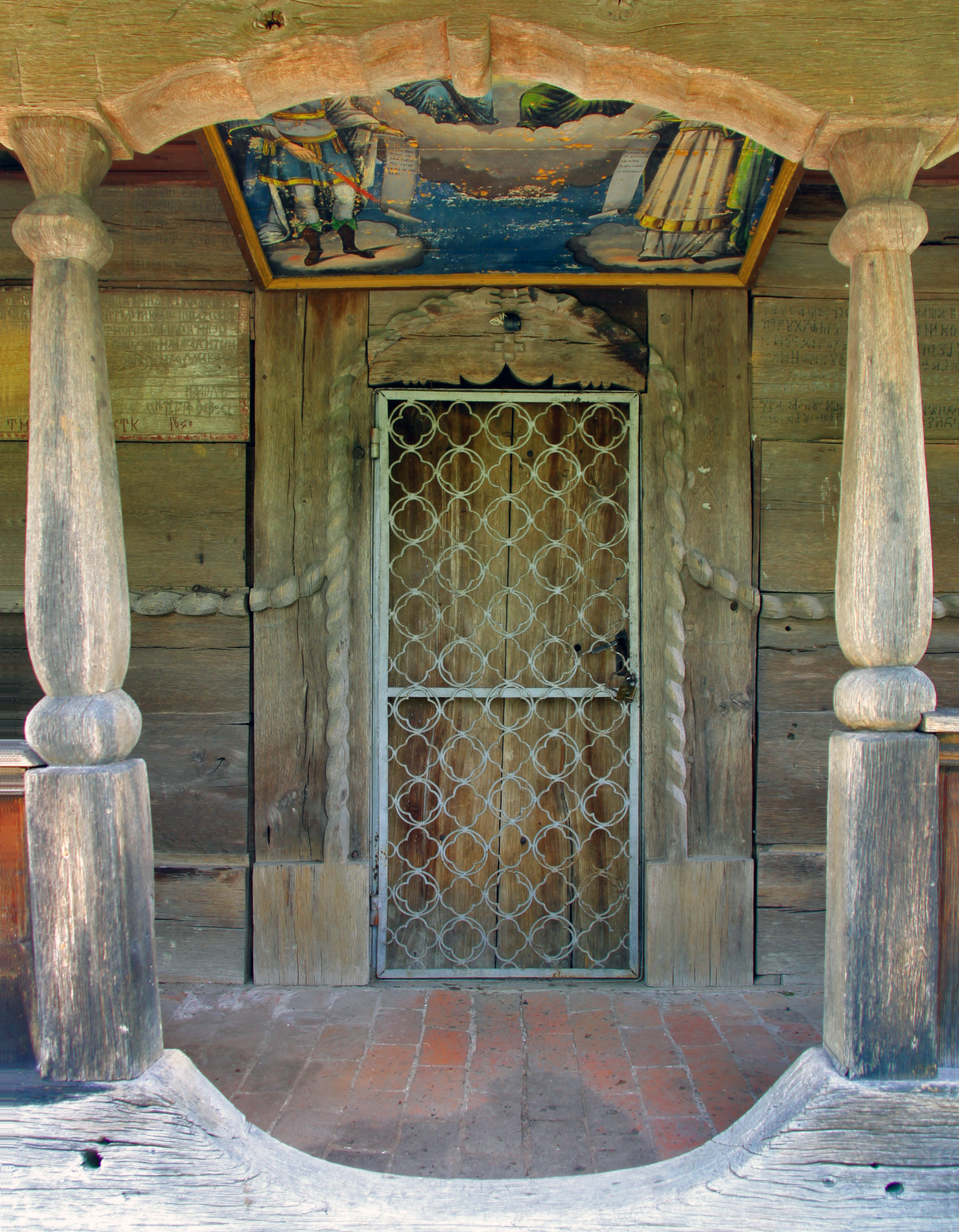 Cetăţeaua, Vâlcea: the wooden church. The entrance.